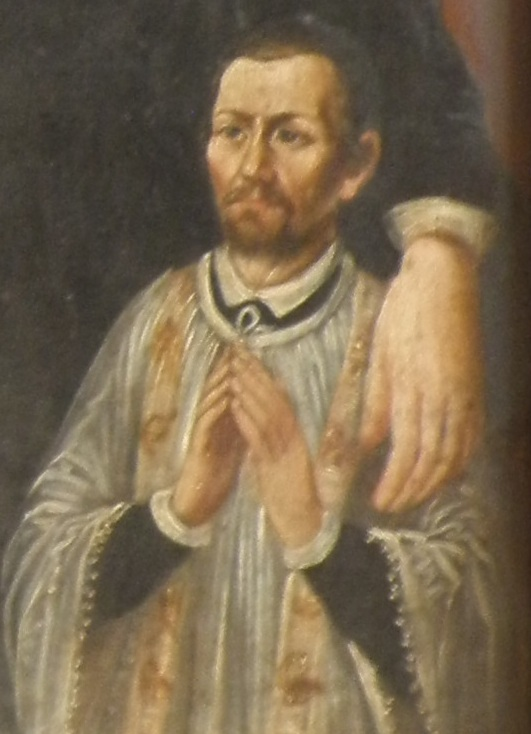 Grzegorz Jan Zdziewojski. Fragment obrazu nieznanego autora.